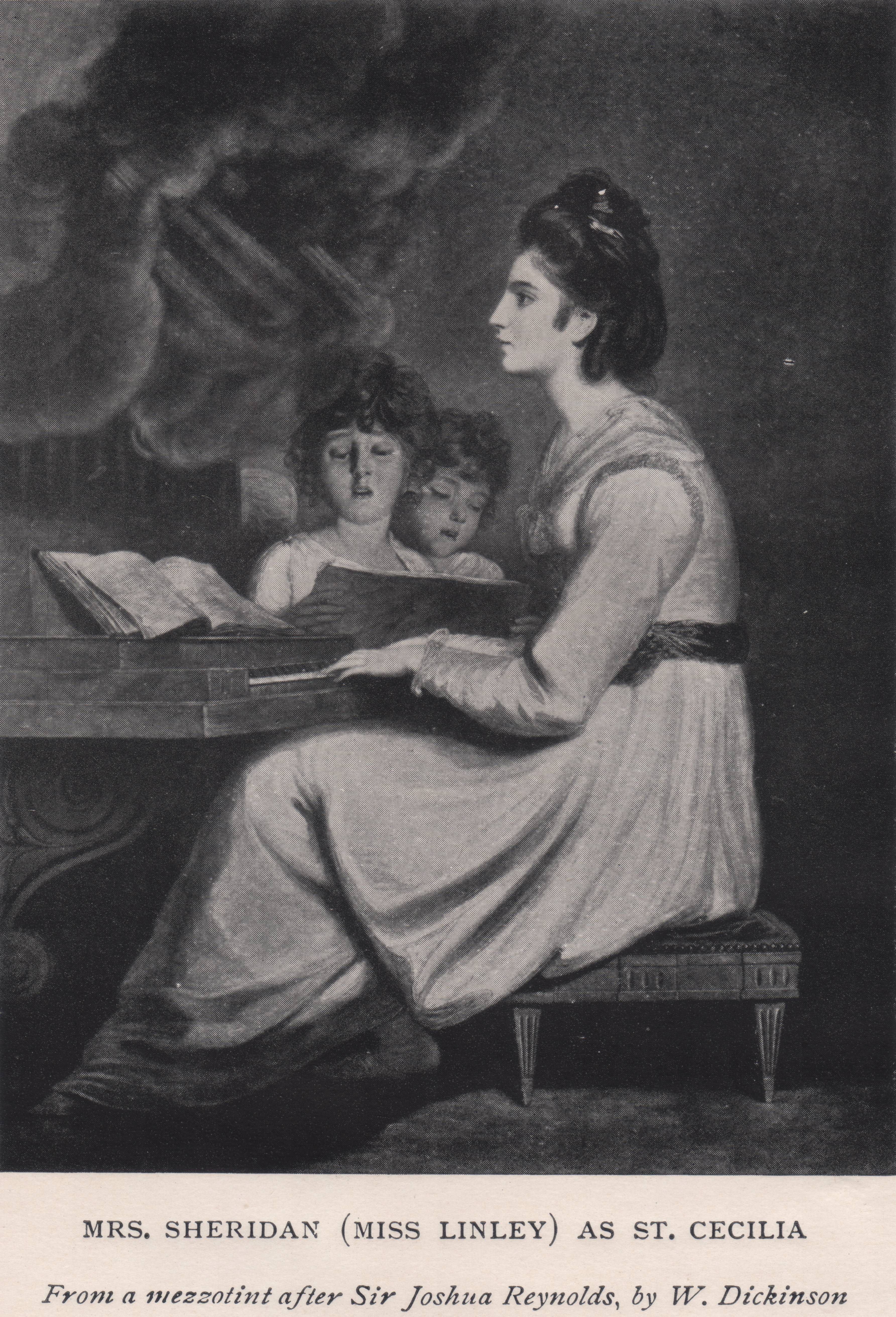 Scanned from The Dramatic Works of Richard Brinsley Sheridan With An Introduction By Joseph Knight And Fifteen Illustrations Oxford Edition Published by Henry Frowde 1906 Oxford University Press Printed by Horace Hart Bookseller label: Boyveau & Chevillet, Paris. Image text: Mrs. Sheridan (Miss Linley) as St. Cecilia. From a mezzotint after Sir Joshua Reynolds by W. Dickinson Book is in the Public Domain in the US and UK Image scanned at 1200 dpi bitmap (colour) then converted to jpeg.